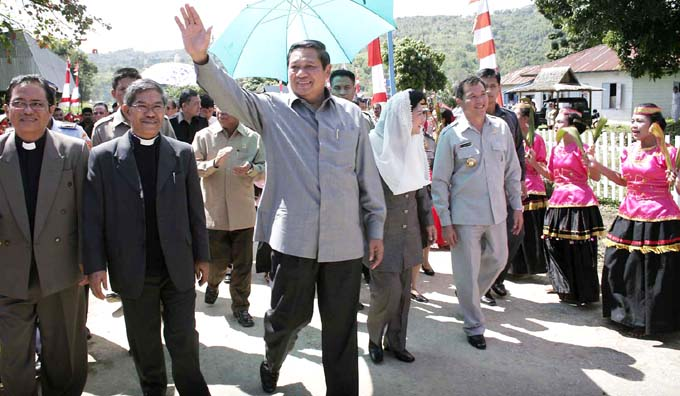 Indonesian President Susilo Bambang Yudhoyono in Tentena, May 2007.